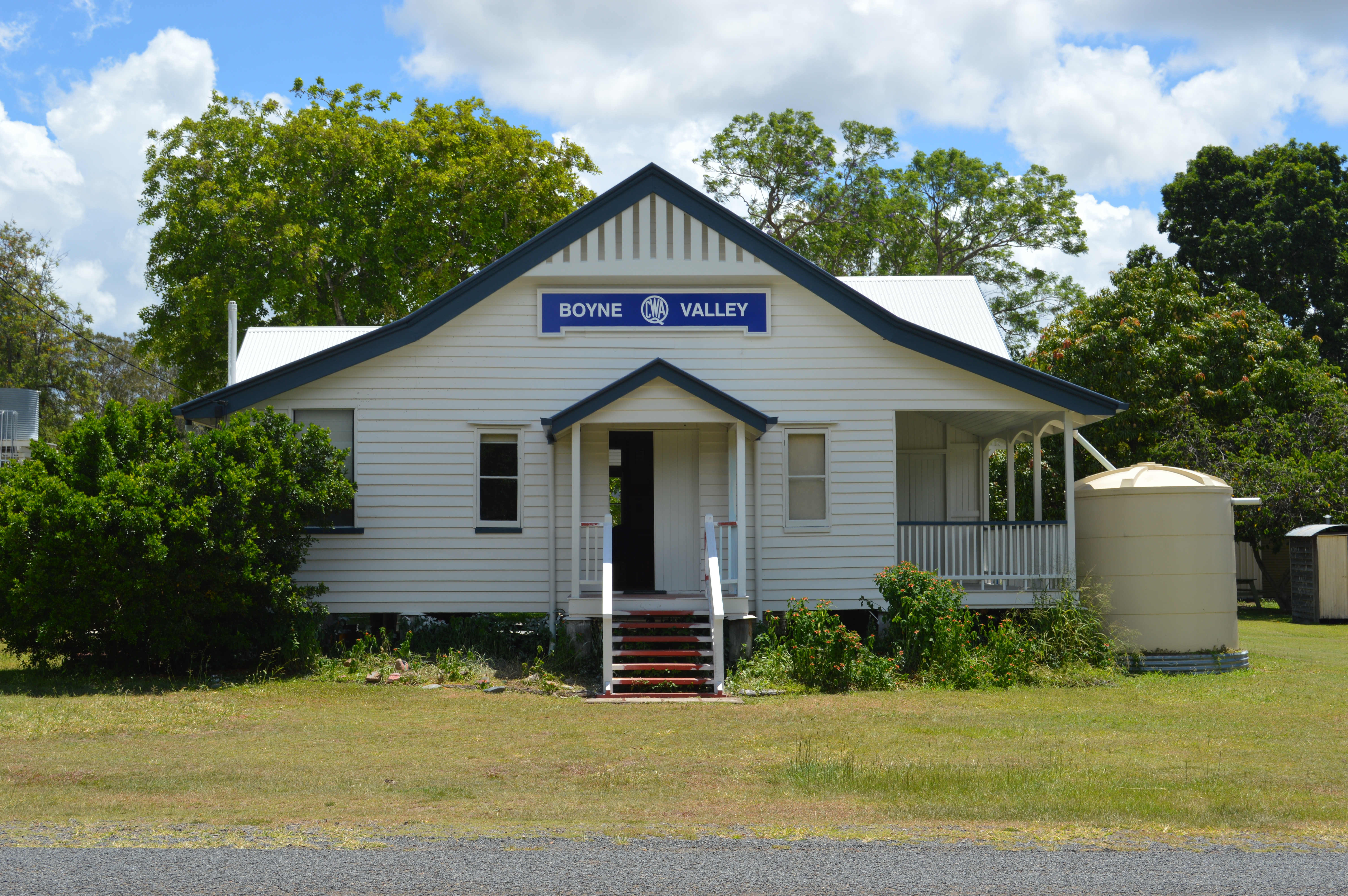 Boyne Valley QCWA rest rooms in Ubobo, Queensland